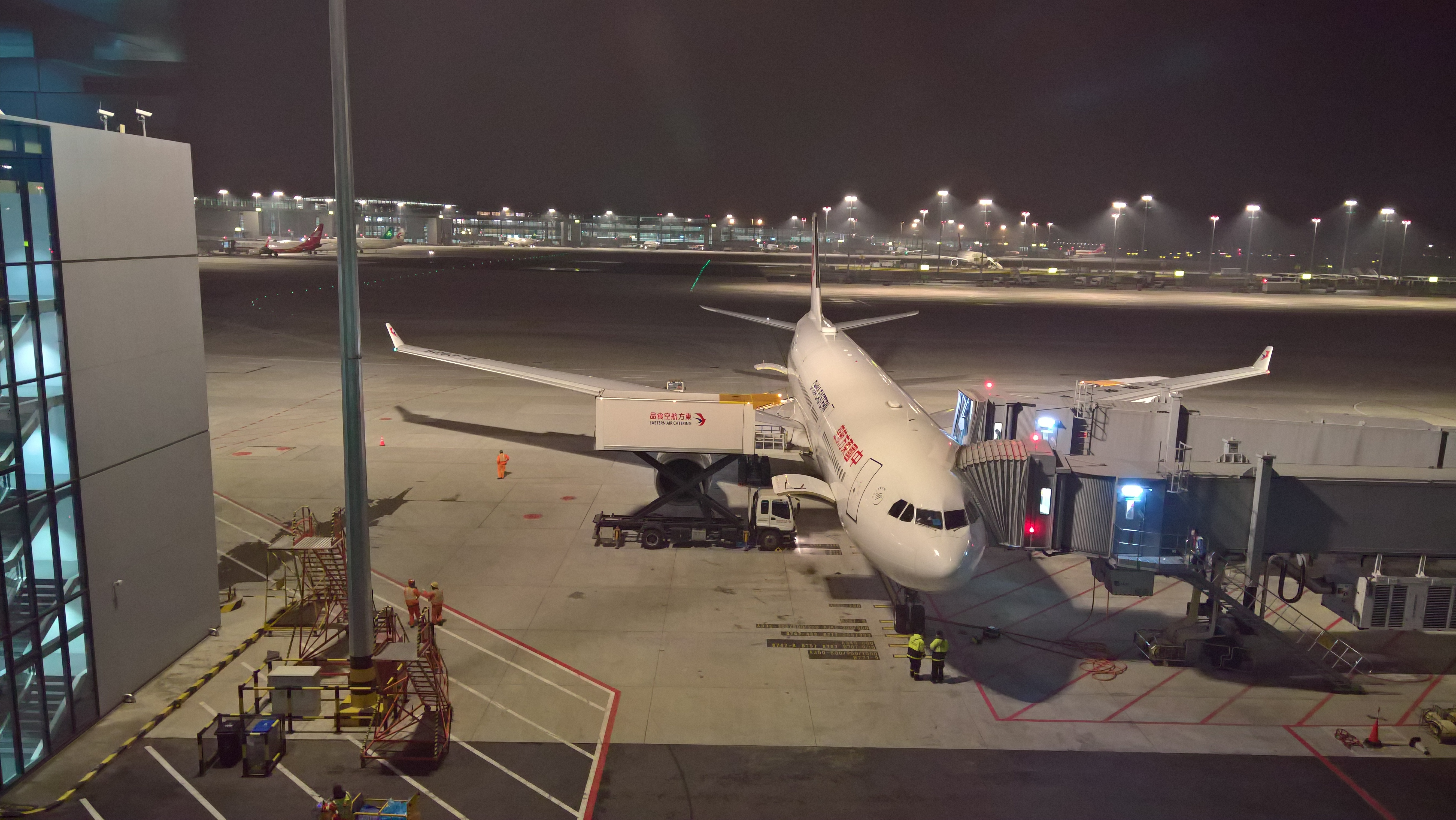 China Eastern A333 B-6085 prepares to fly MU281 to SGN. This flight usually rates a single aisle aircraft, but Lunar New Year or Tet traffic apparently merits a rather substantial upgrade.